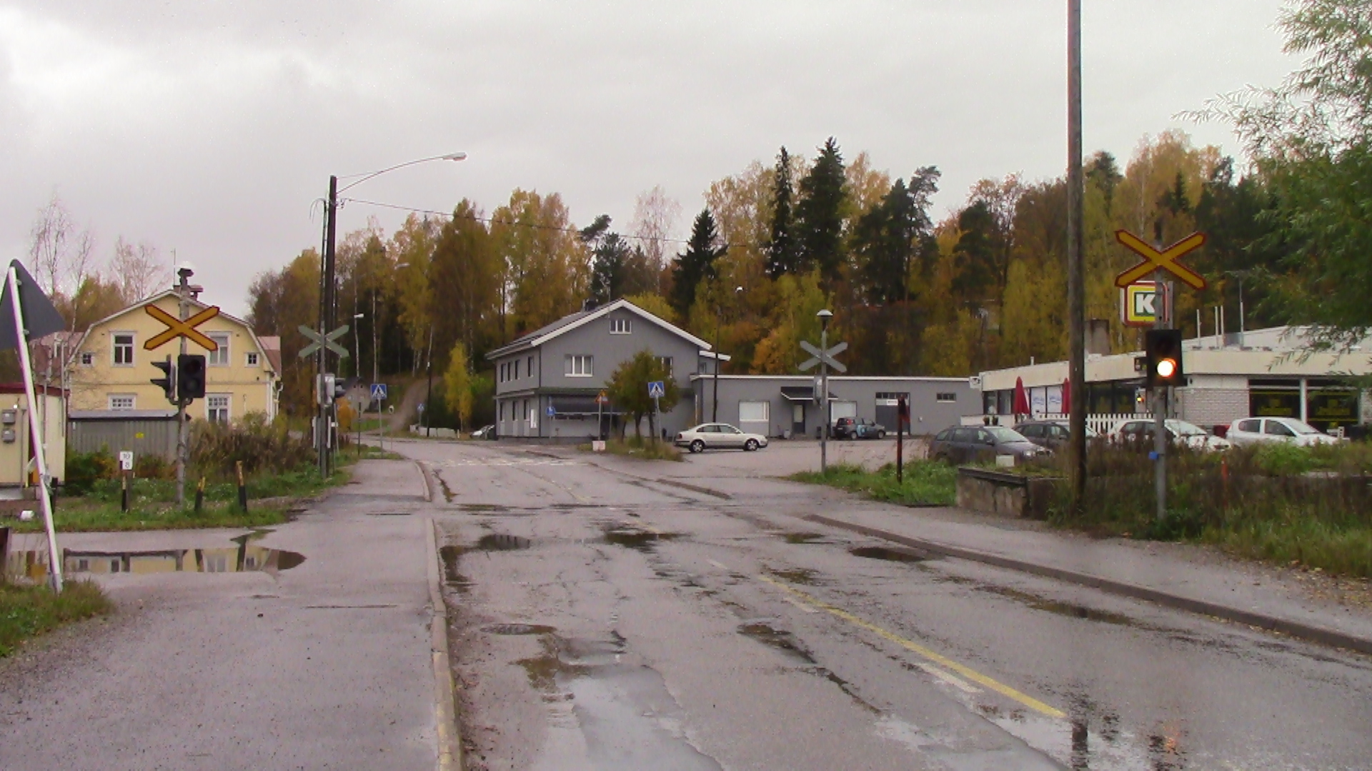 Connecting road 1492 and the level crossing of Kerava-Porvoo line at Hinthaara in Porvoo.